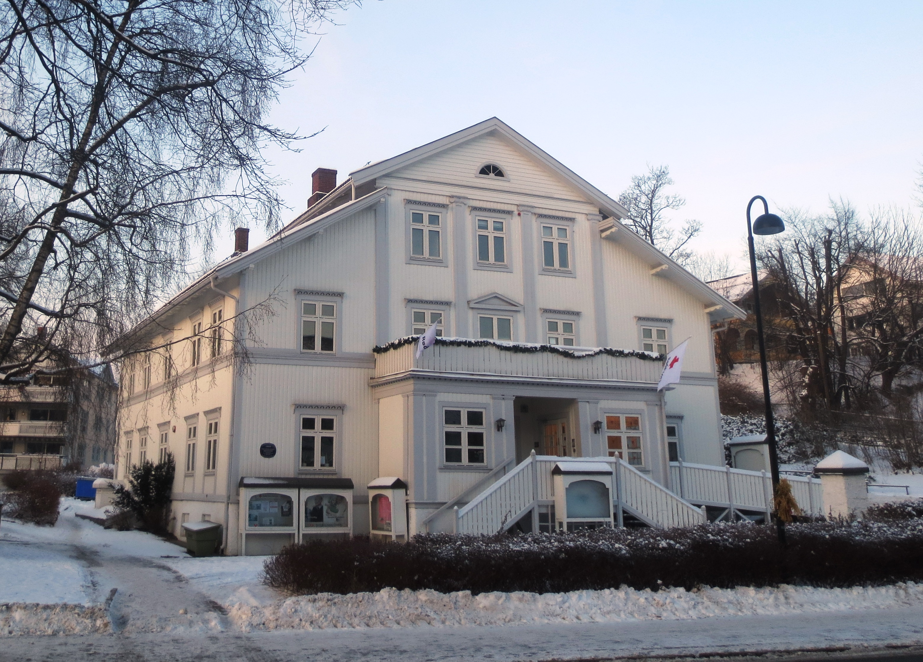 Løkke Gård (Løkke Manor) on the address Elias Smiths vei 1, in Bærum, Norway. This is the building of the Red Cross Committee of Bærum.